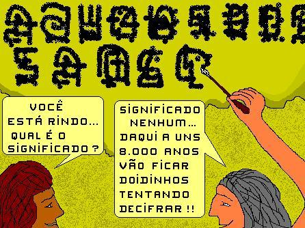 Before the archeology.